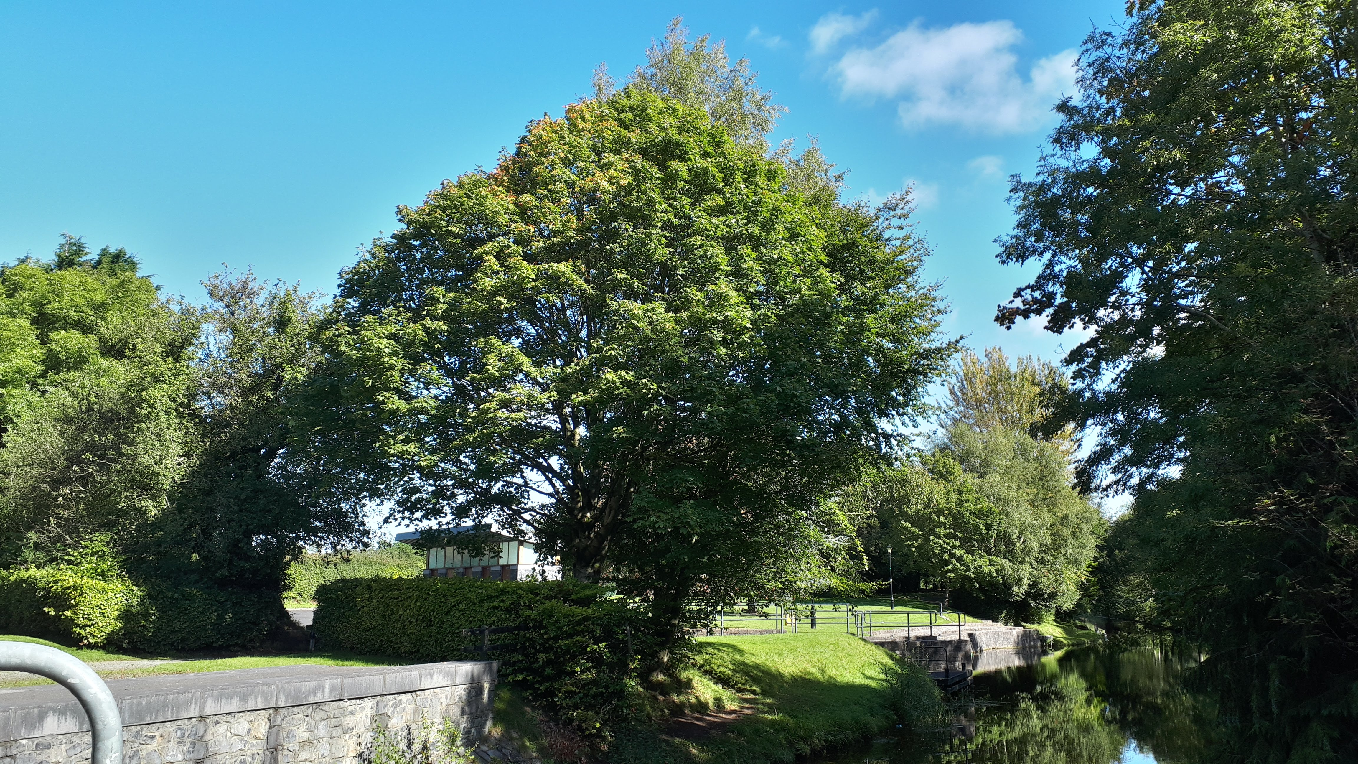 Enfield Harbour, County Meath. 17 September 2019.